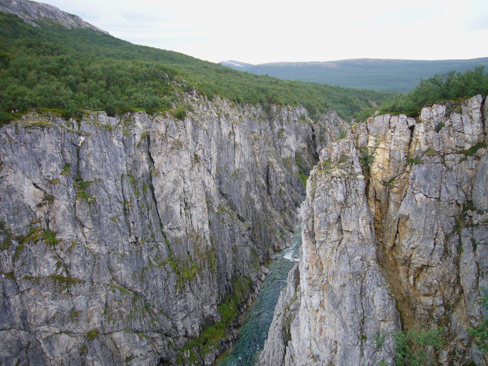 The river Børselva at SilfarfossenNorsk bokmål: Børselva ved Silfarfossen